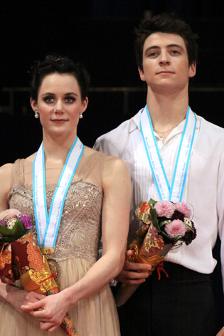 2009 Grand Prix of Figure Skating Final - Tessa Virtue and Scott Moir